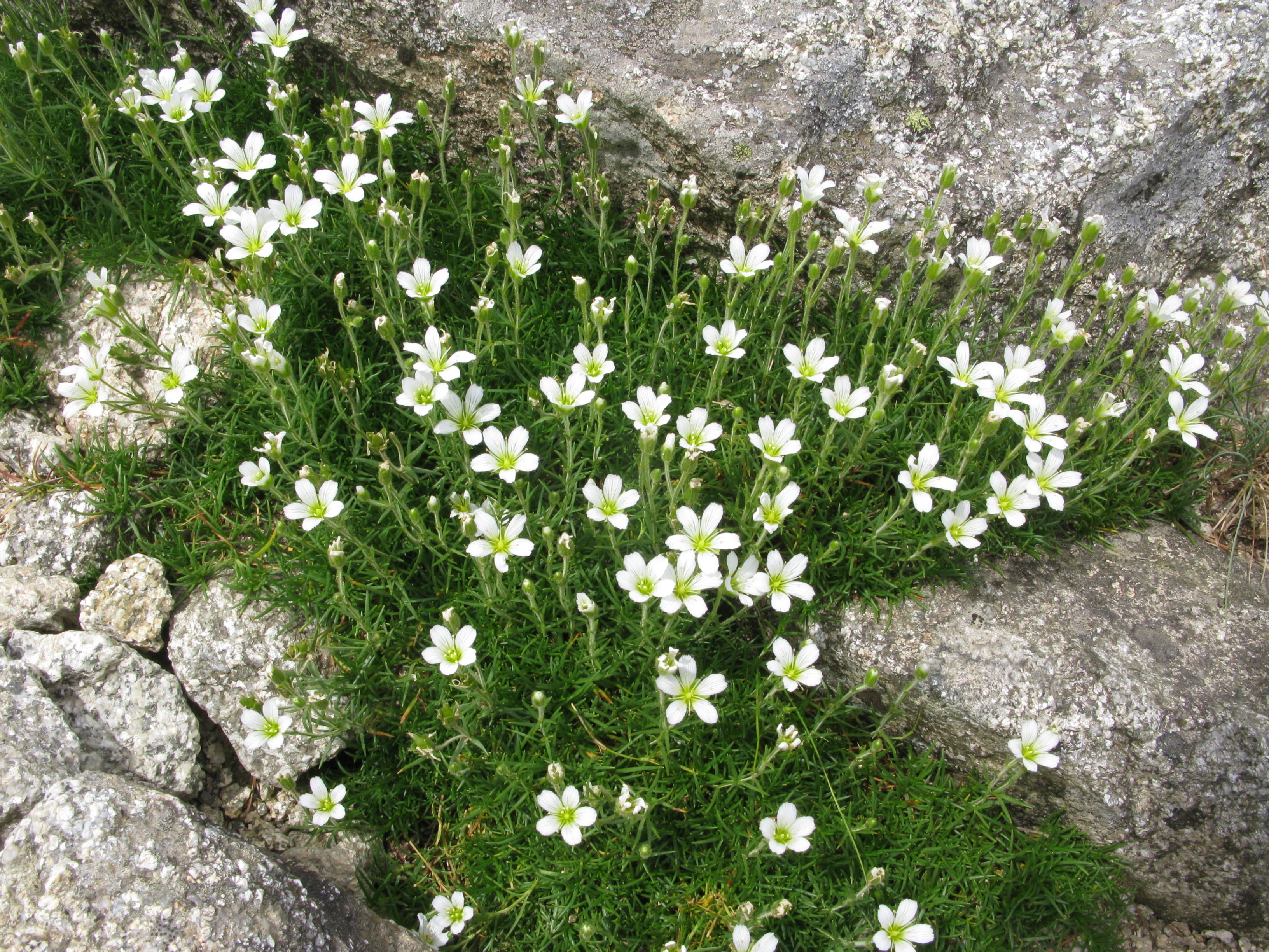 Minuartia arctica var. hondoensis, Mt. Iide, Fukushima pref., Japan